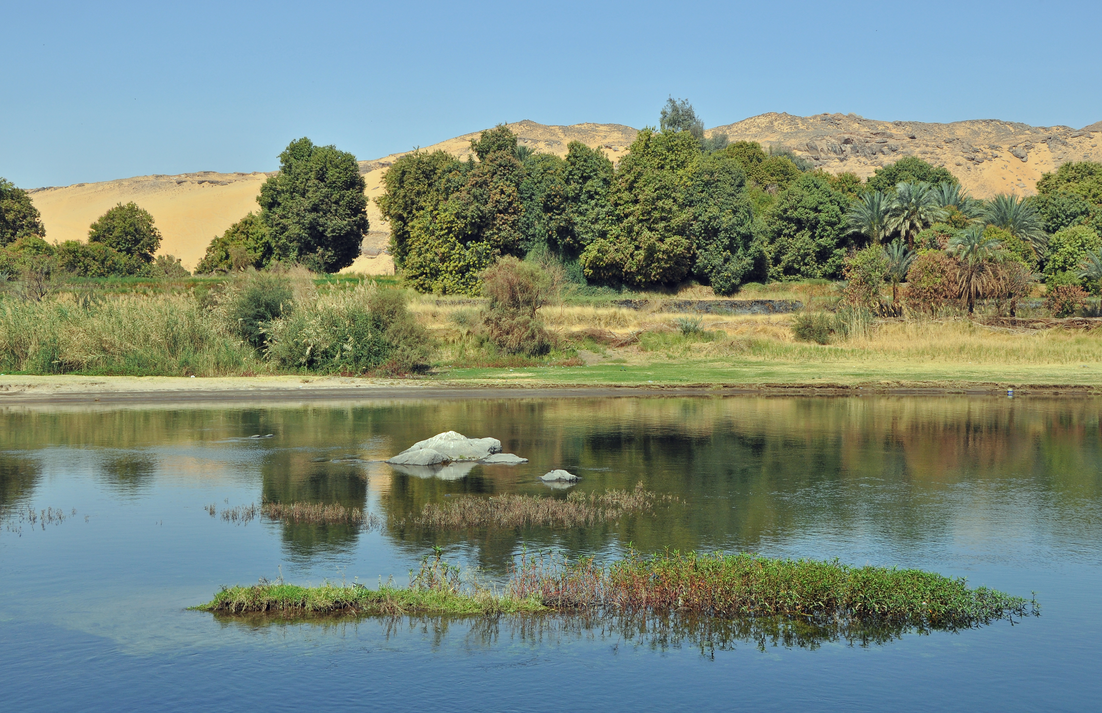 Aswan (Egypt): a branch of the Nile